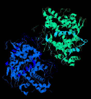 Myeloperoxidase drawn from PDB: 1D7W​ using Rasmol and MS PhotoEditor.